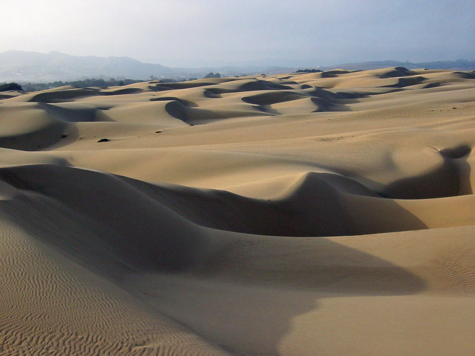 The Guadalupe-Nipomo Dunes — near Oceano, southwestern San Luis Obispo County, California. Credits Photo by Michael "Mike" L. Baird Originally posted in 2002 at morrobay.ws/images/AWN-walks/enhanced-oceano-dunes-5-31-0... , and forgotten about until I received a request to use this: 14 Jan 2008, Hello Mr. Baird - We would like permission to print, with photo credit, your photo "enhanced-oceano-dunes-5-31-02" from the Morro Bay.ws archives in the February 2008 issue of our newsletter. The Santa Lucian is distributed monthly to our 2,500 members in San Luis Obispo County. Thank you, Andrew Christie, Chapter Director Santa Lucia Chapter of the Sierra Club, P.O. Box 15755, San Luis Obispo, CA 93406, (805) 543-8717 Permission granted!